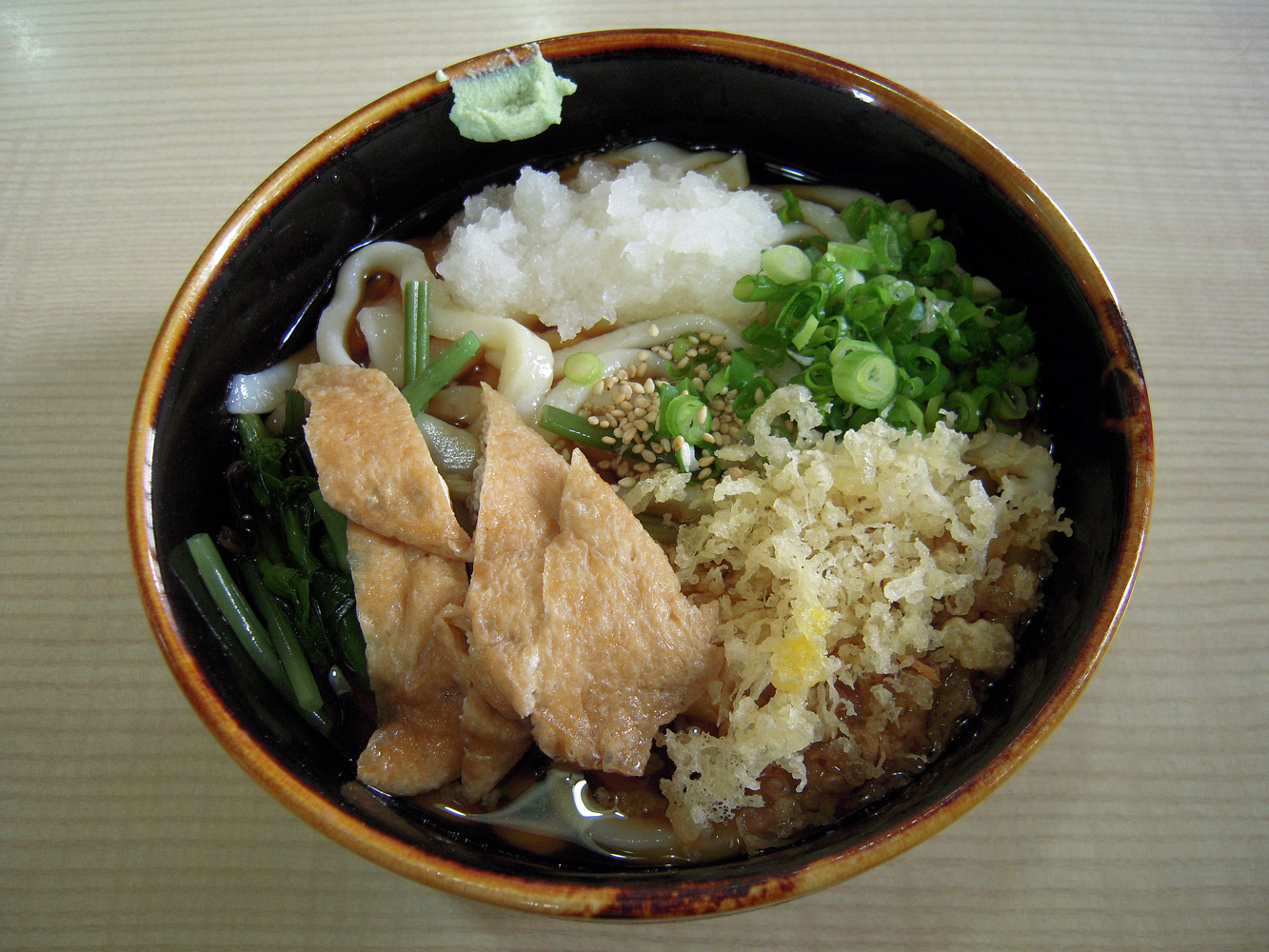 Bukkake-udon of Kurashiki city.